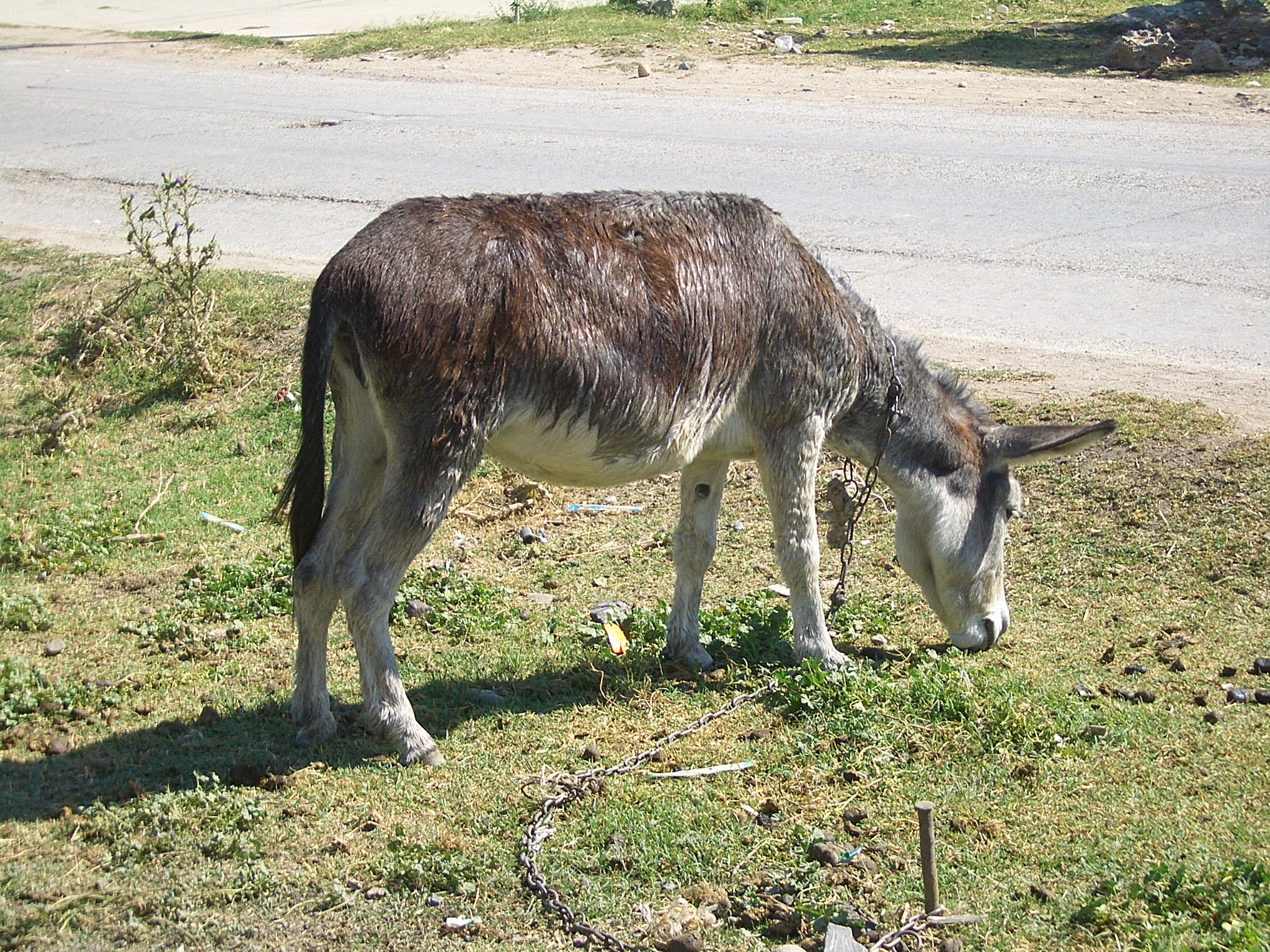 A donkey in Milyanfan village. (Chuy Province, Kyrgyzstan).